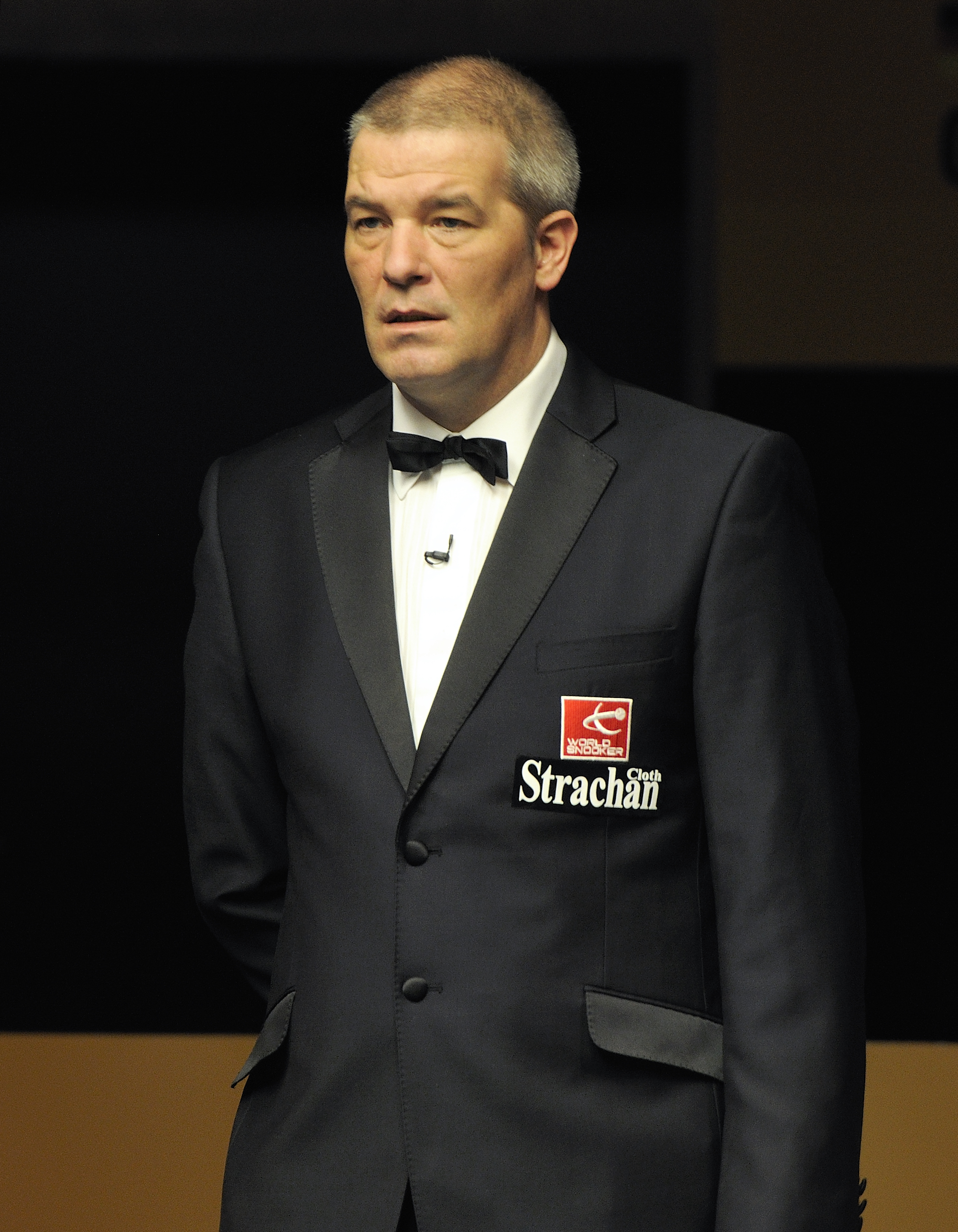 Picture taken in Berlin during the Snooker German Masters in 2013. Jan Verhaas.